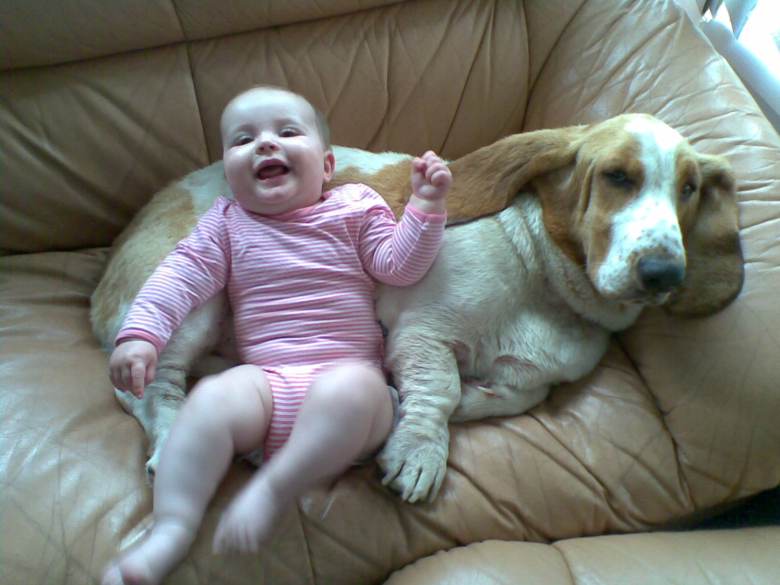 My 17 month old Basset Hound Trilby with my 5 month old daughter Indigo. for more info and pictures.